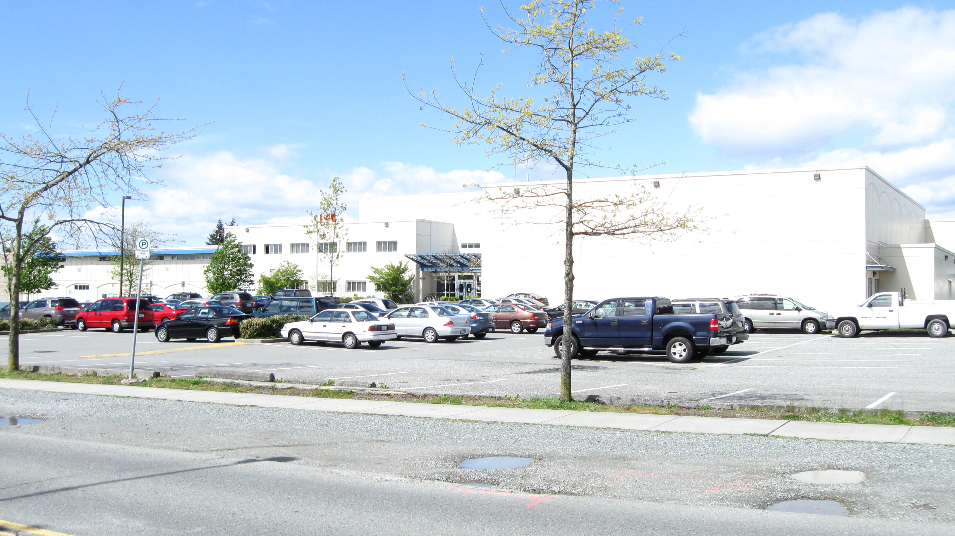 A north facing view of North Delta Secondary at 11447 82 Avenue in Delta, BC, Canada. This new modern school structure was opened in late 2003.